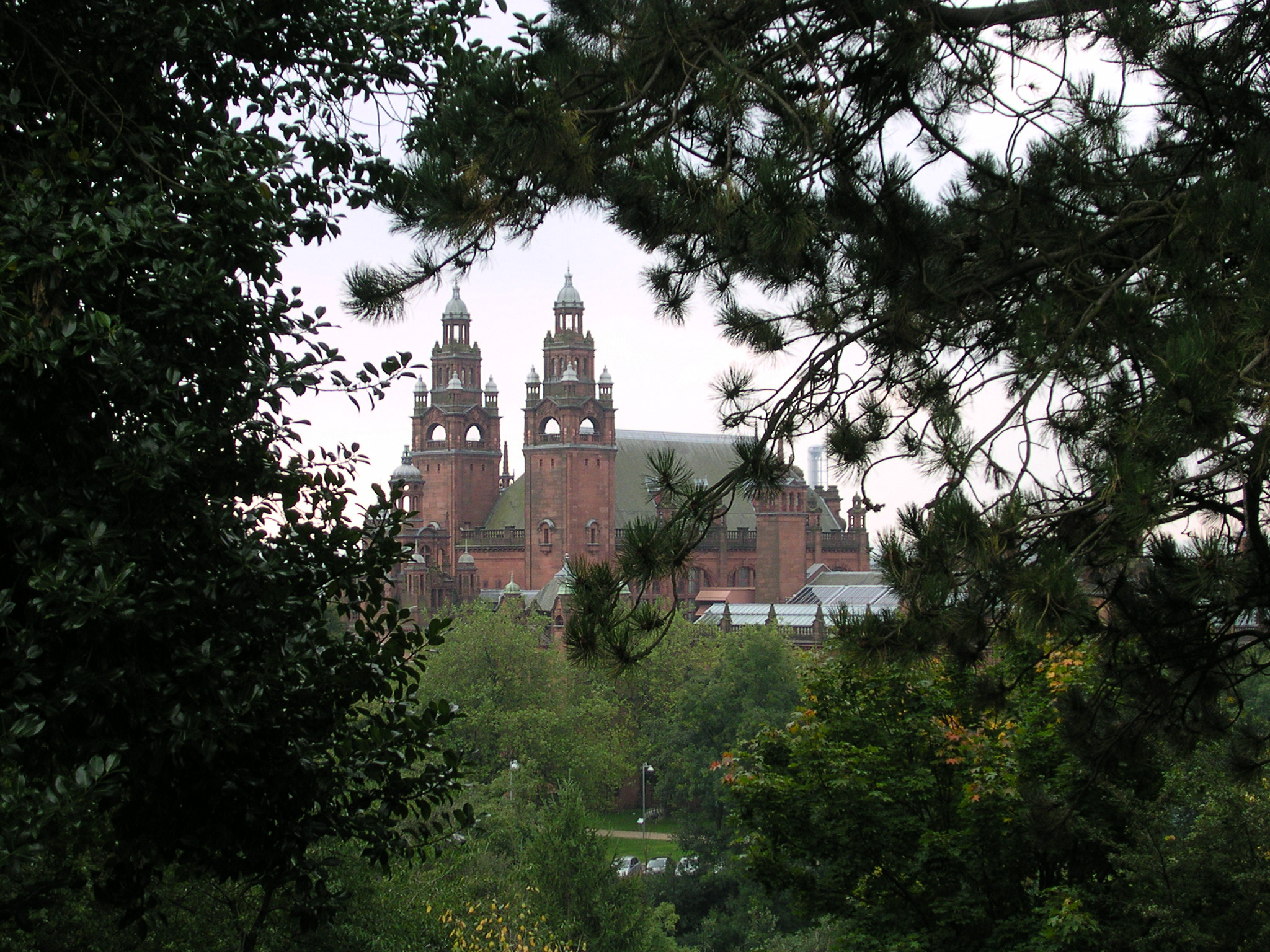 Kelvingrove Art Gallery and Museum, Glasgow